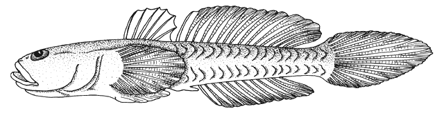 The illusctration of Benthophiloides turcomanus from: Berg, L.S., 1965. Freshwater fishes of the U.S.S.R. and adjacent countries. volume 3, 4th edition. Israel Program for Scientific Translations Ltd, Jerusalem. (Russian version published 1949).